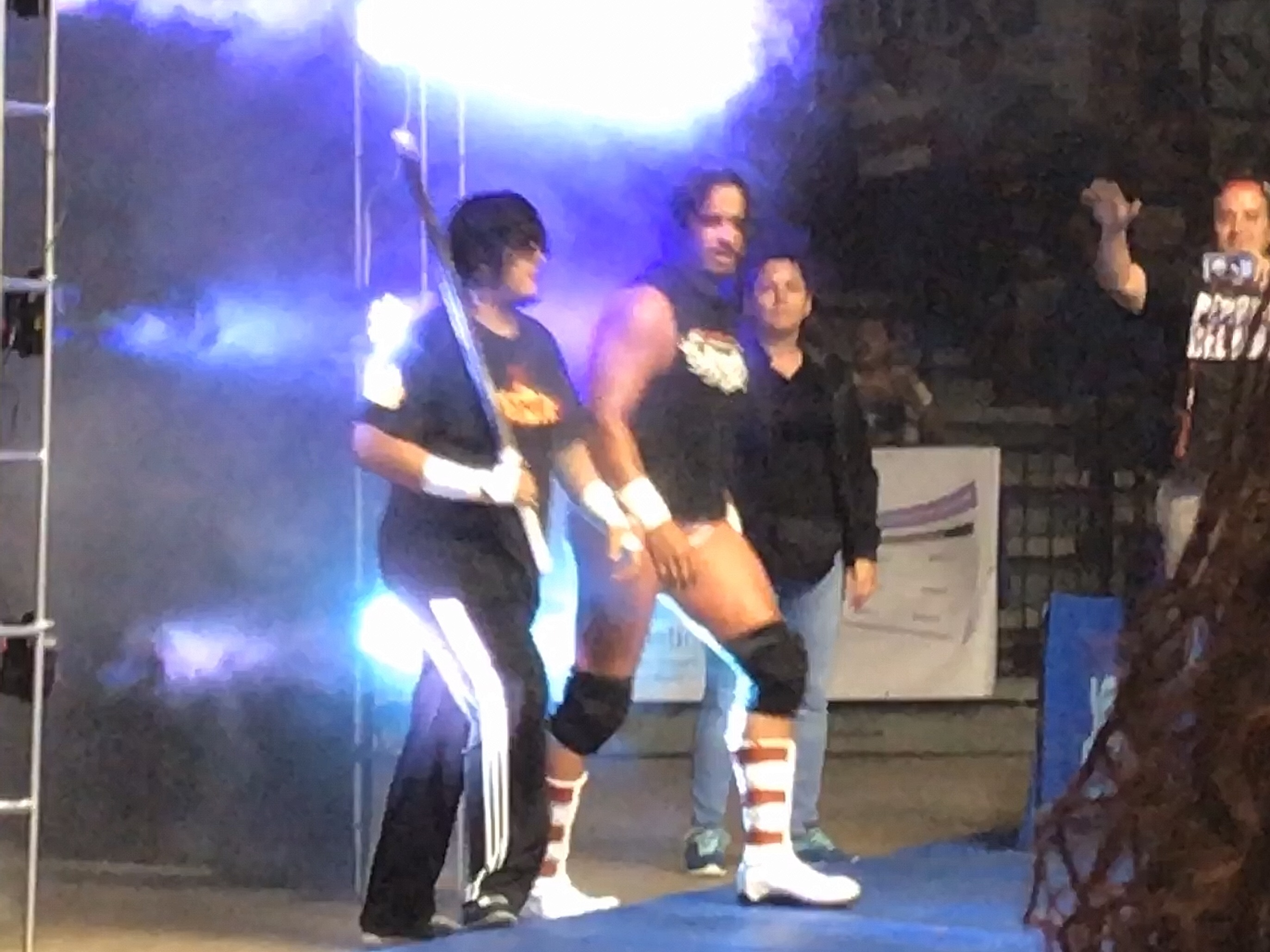 Ray González Jr. (left) and Gilbert (right) as part of professional wrestling stable El Sindicato at the World Wrestling Council's Aniversario 2018 event.